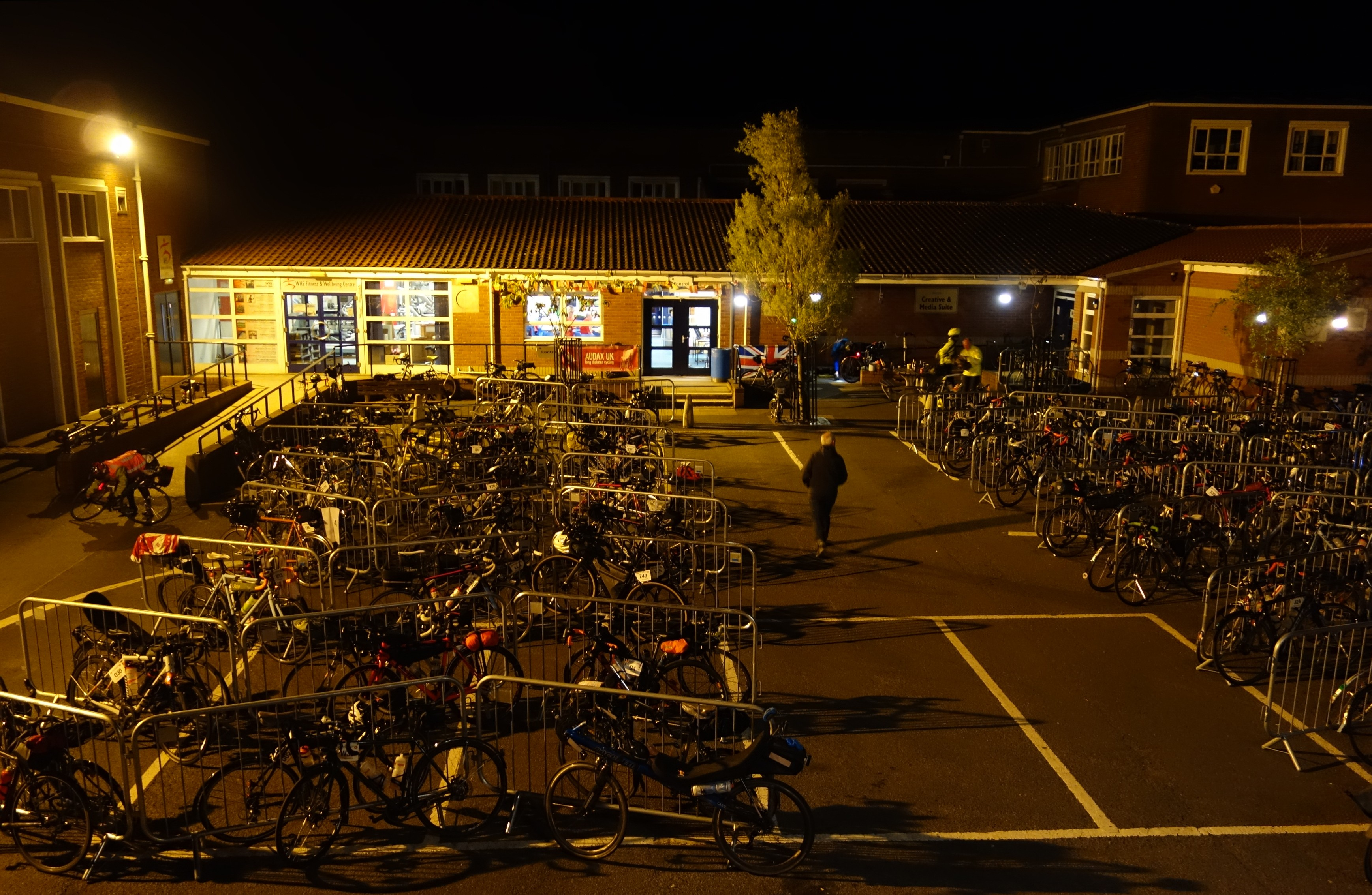 Brampton control on London-Edinburgh-London 2017. Bikes parked outside control entrance.